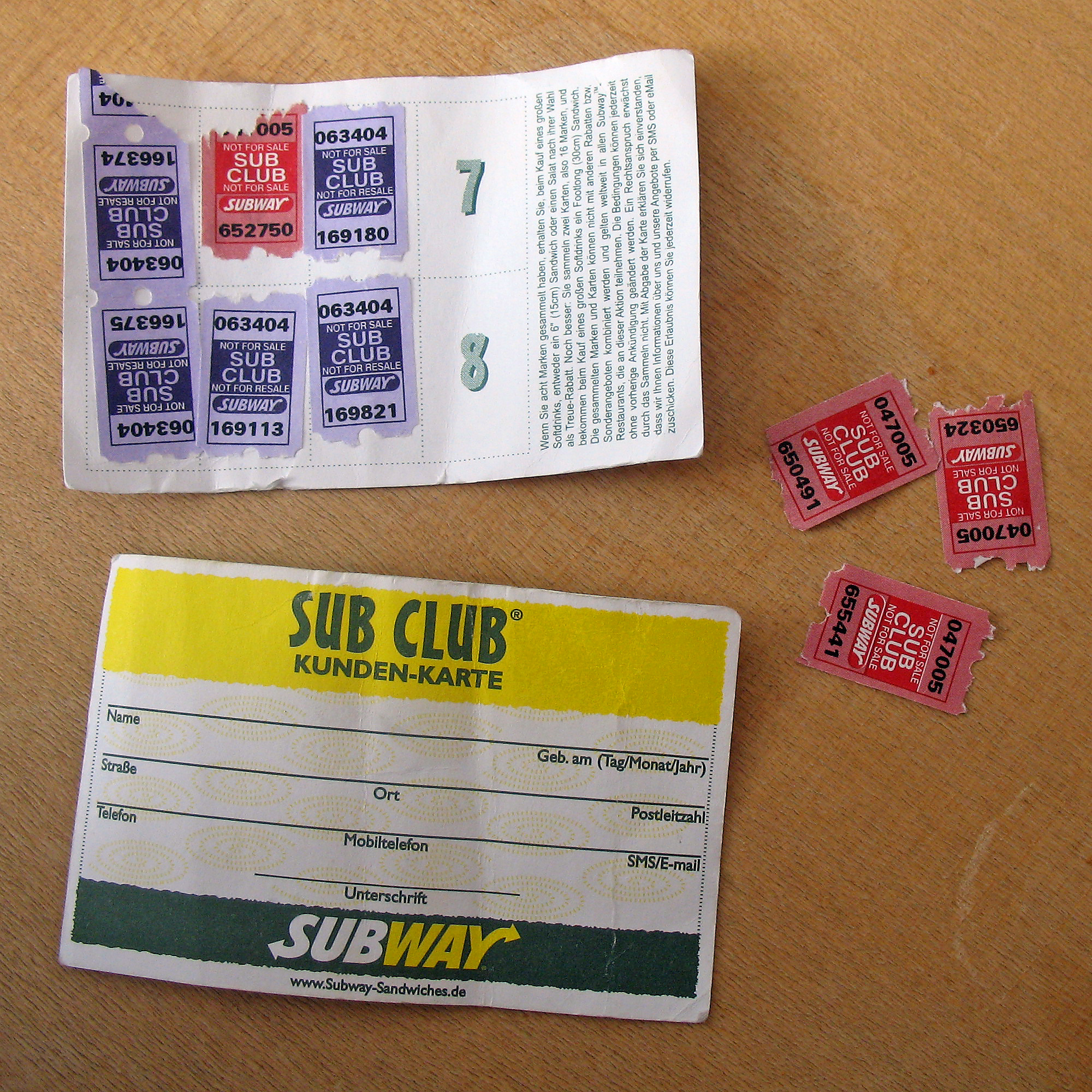 Sub Club Cards and stamps (German version)